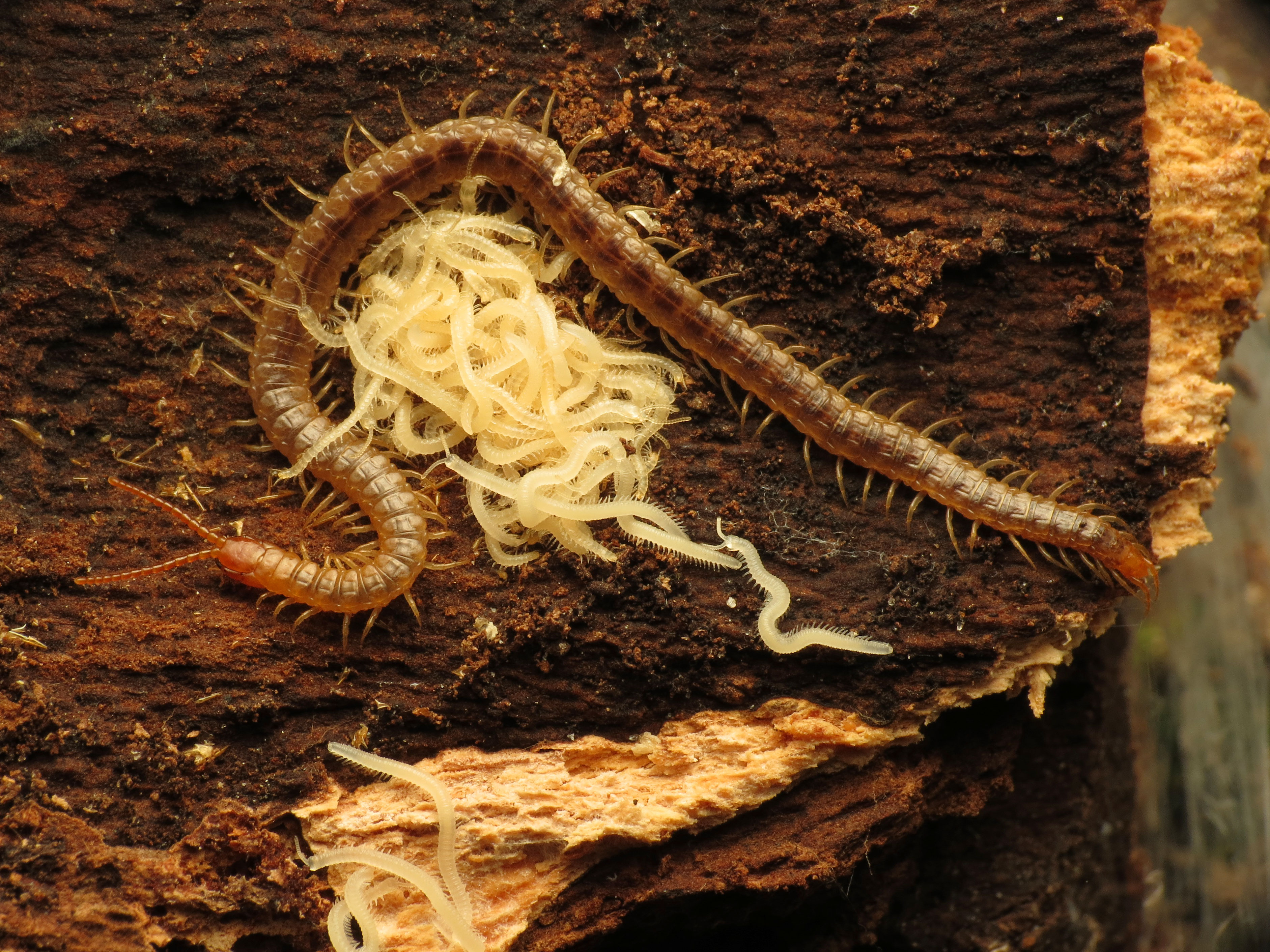 Geophilus sp. Rock Creek Park, Washington, DC, USA